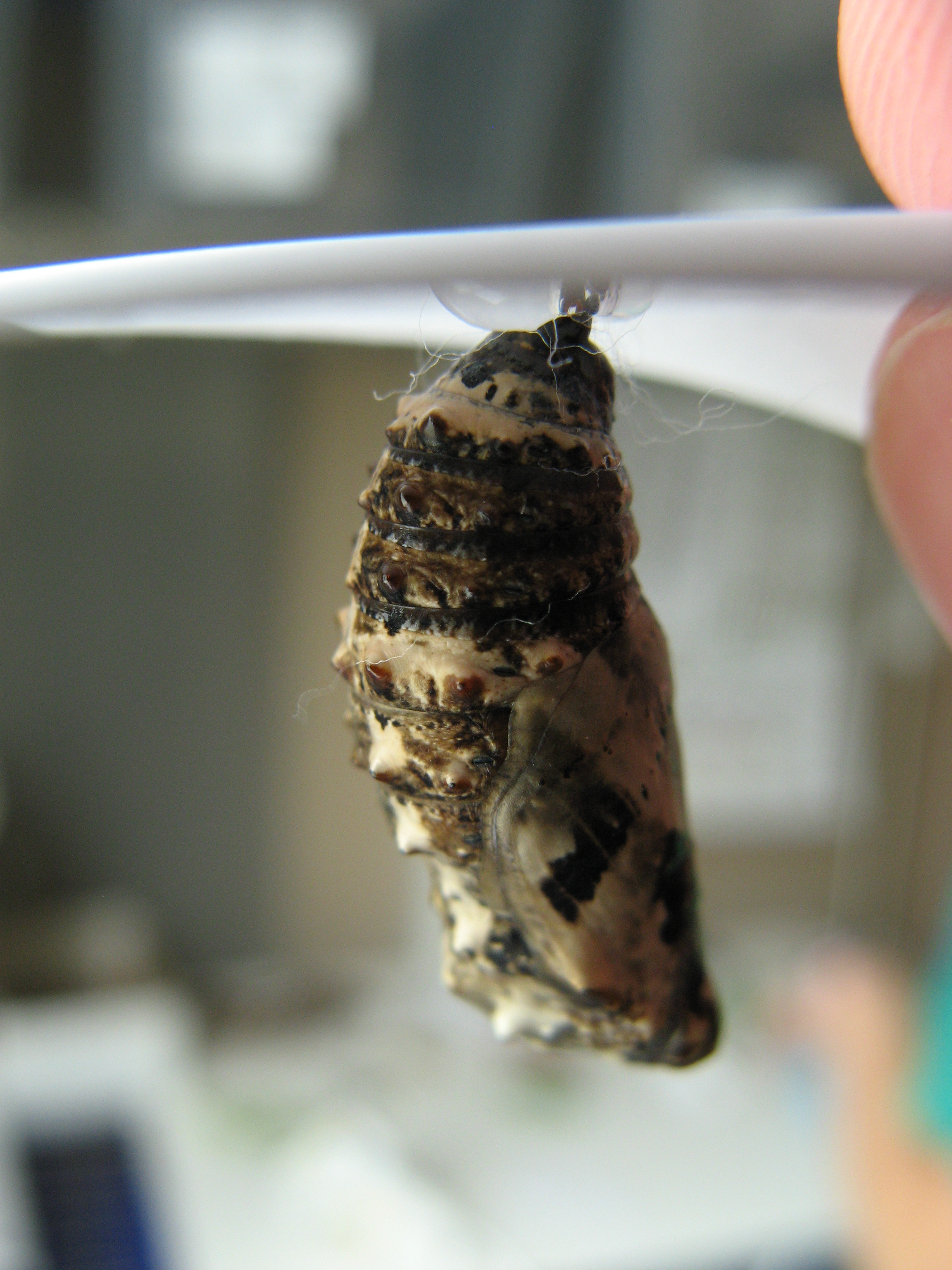 Junonia almana chrysalis, lateral view.